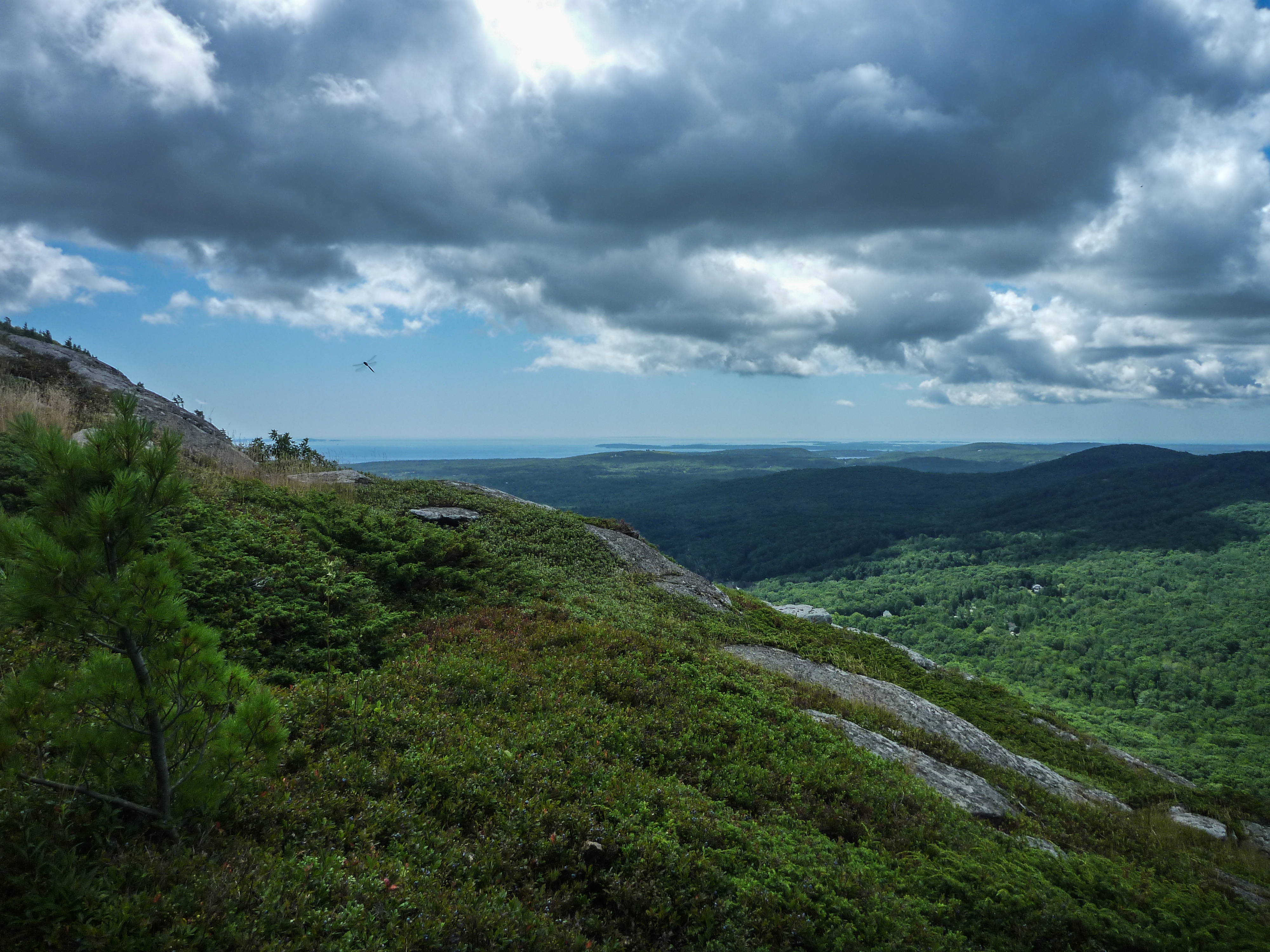 The view fron the peak of Bald Mountain, camden, maine.